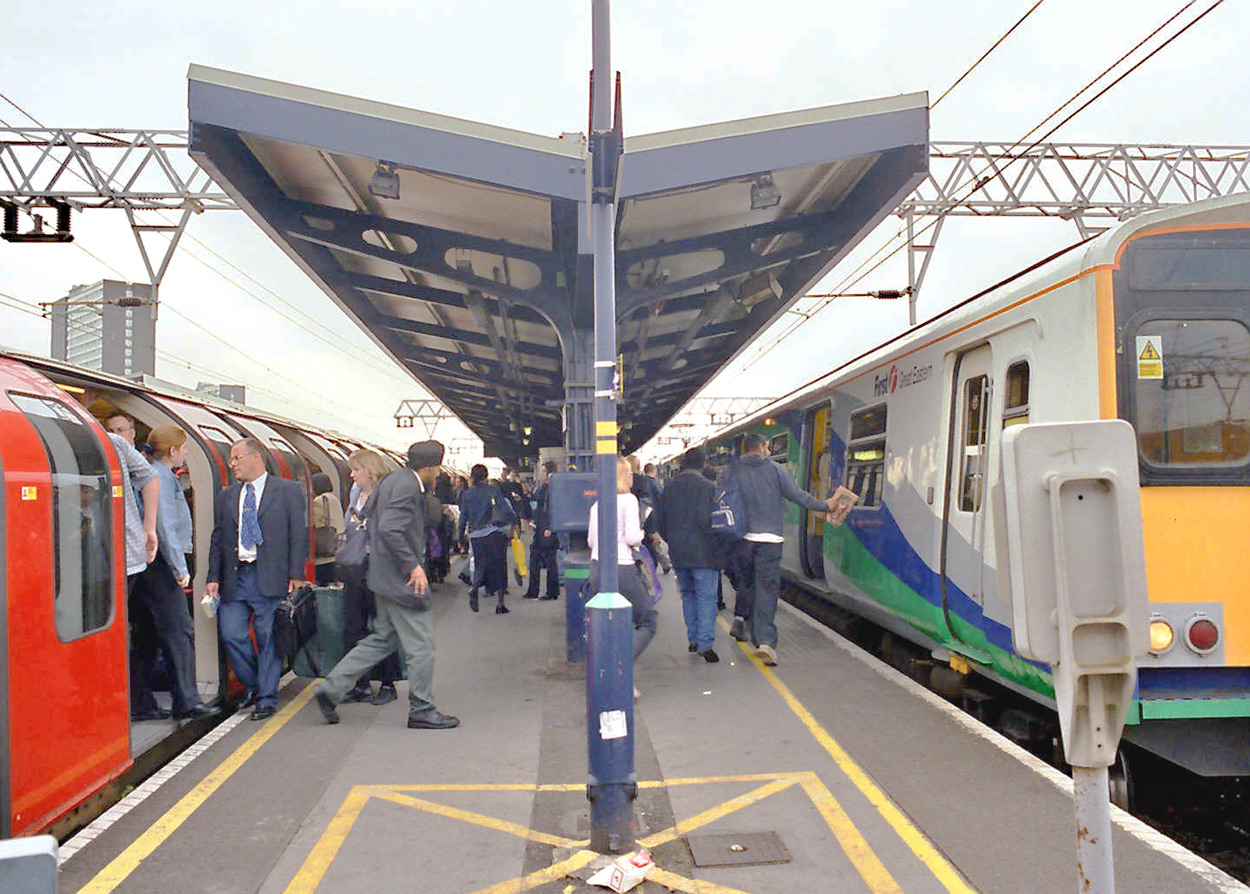 Homeward passengers during the evening peak hour scurry from a Central Line 1992 tube stock train (heading for Hainault via Newbury Park) on platform 6 to catch a Class 315 mainline train operated by First Great Eastern (calling at Ilford, Romford and then all stations to Shenfield) on platform 8 at Stratford station, London. Platform 7 is a disused bay (located at the far end of this island platform) which was intended for services to Fenchurch Street. At least two trains per hour between Liverpool Street and Shenfield during peak hours call at Stratford, Ilford, Romford, Gidea Park, Harold Wood, Brentwood and Shenfield. Since this photograph was taken this platform has been partially rebuilt and the gap between trains is wider, plus there is a new platform roof.